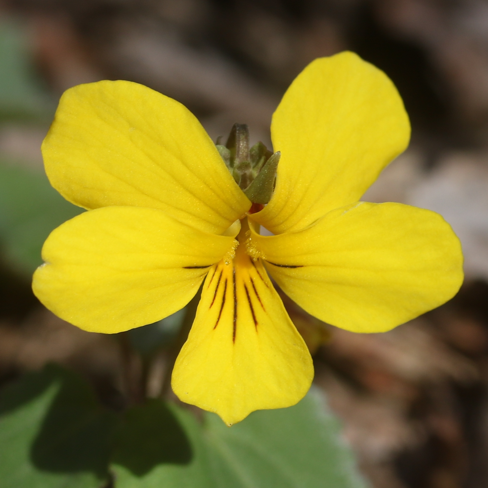 Viola orientalis in Yumihari Mountains, Toyohashi, Aichi Prefecture, Japan.